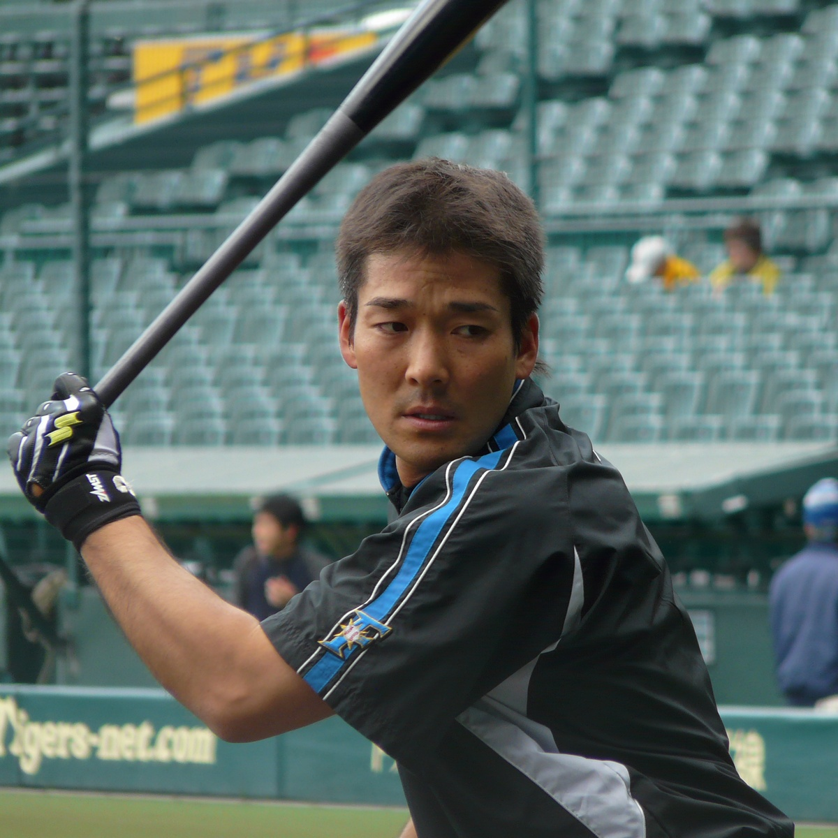 Shinji Takahashi, infielder of the Hokkaido Nippon-Ham Fighters, at Hanshin Koshien Stadium.